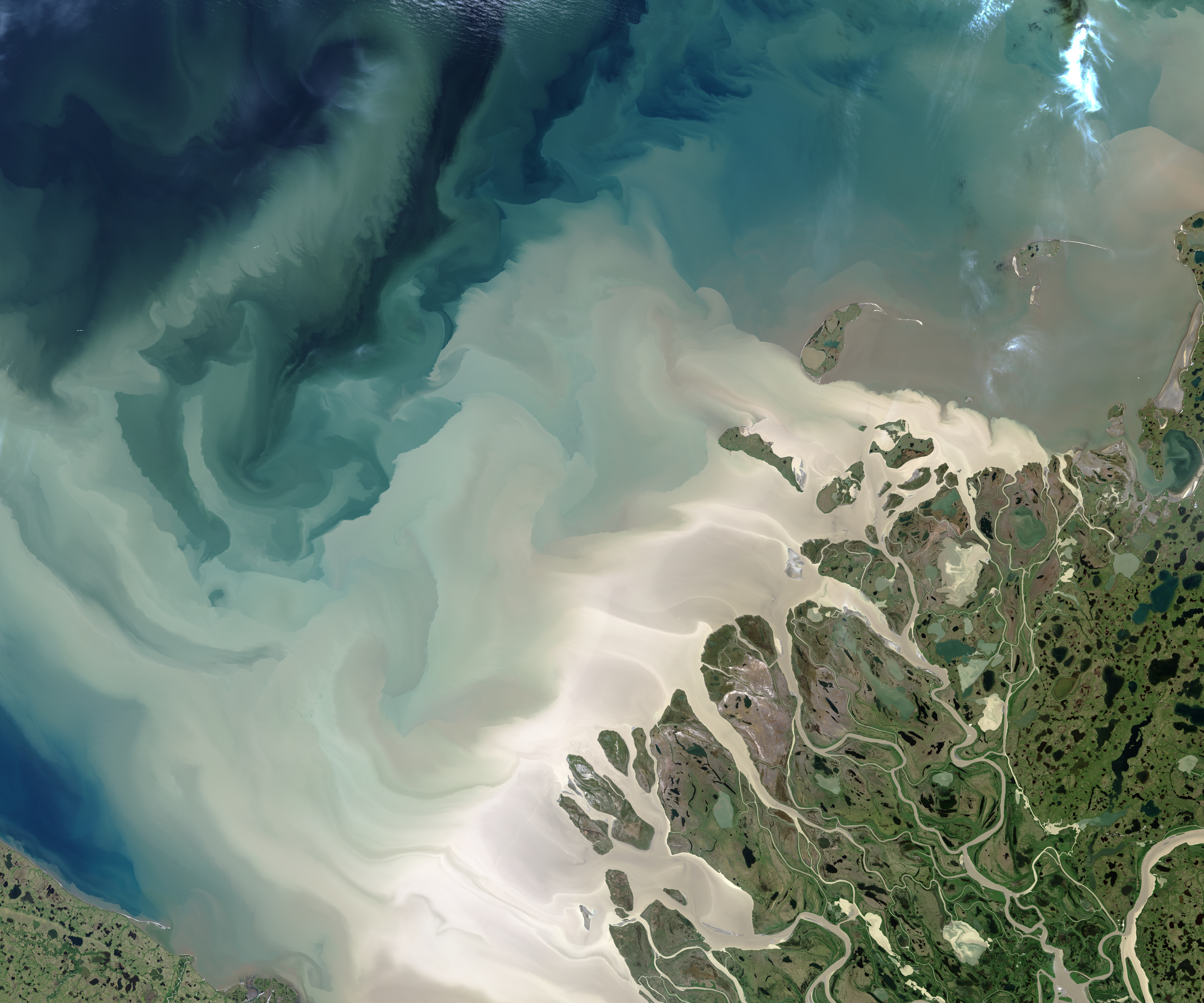 The Mackenzie River is the leading source of freshwater flowing into the Arctic Ocean. It's also a leading source of sediment flowing into that basin. The Operational Land Imager (OLI) on the Landsat 8 satellite acquired this image of the Mackenzie Delta on July 19, 2017. At the time, the Beaufort Sea was colored with milky, tan brush strokes of sediment in various levels of dispersal after pouring out of the river. The Mackenzie is the largest and longest northward-flowing river in North America, and the second largest on the continent (after the Mississippi). The watershed drains a huge, but mostly unsettled portion of Canada; population density along the 4,200 kilometer (2,600 mile) river is just 1 person per square kilometer. About 7 percent of the fresh water that flows into the Arctic Ocean each year comes out the Mackenzie and its delta, and much of that comes in large pulses in June and July after the freshet—when inland ice and snow melts and floods the river. The spring flood carries with it tremendous amounts of dissolved organic material and sediment. More info & refs at source.